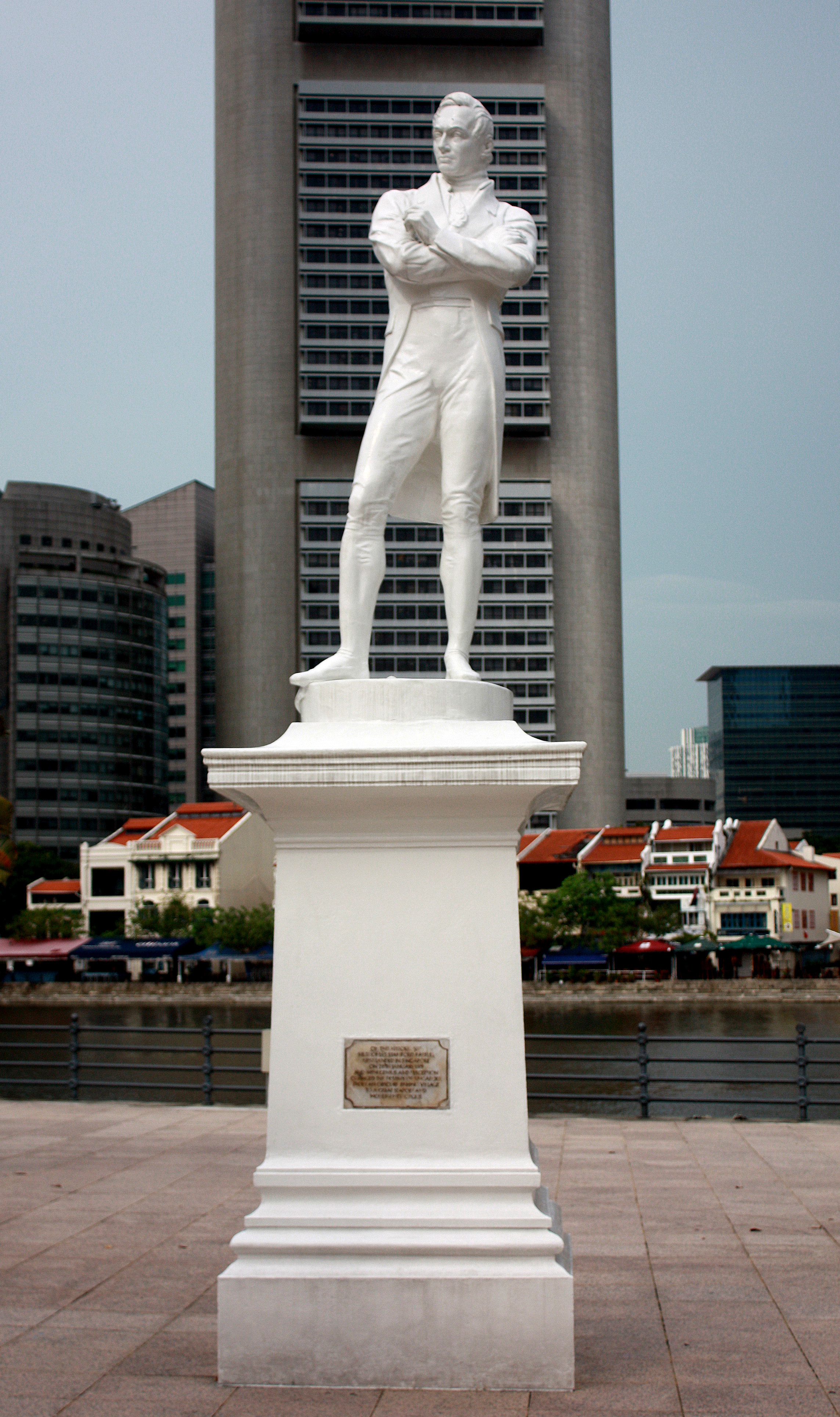 Photo of statue of Sir Stamford Raffles in Singapore taken by Wolfgang Holzem /